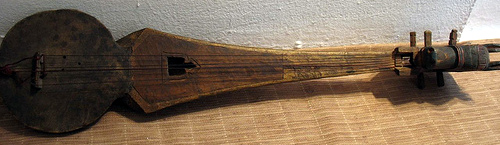 Dranyen